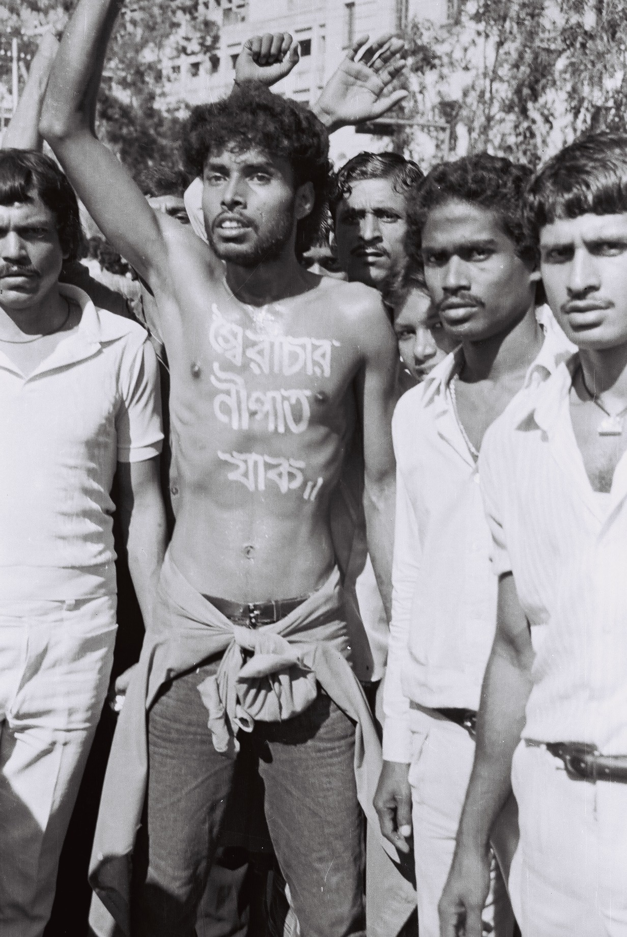 Noor Hossain (second from left) at 10 November 1987 protest for democracy in Dhaka, before he was shot to death by Bangladesh Police.